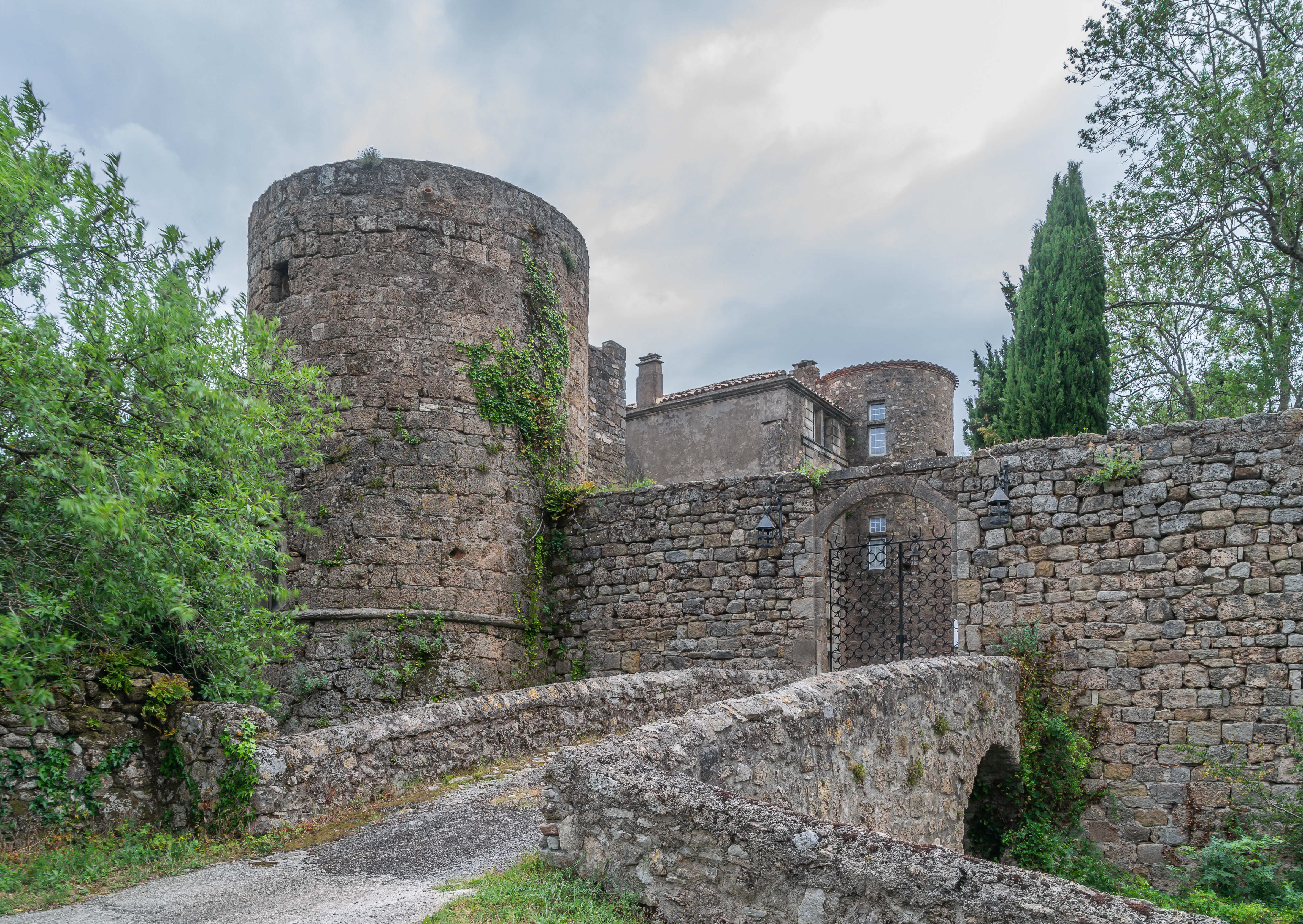 South gate of the castle of Soubès, Hérault, France .